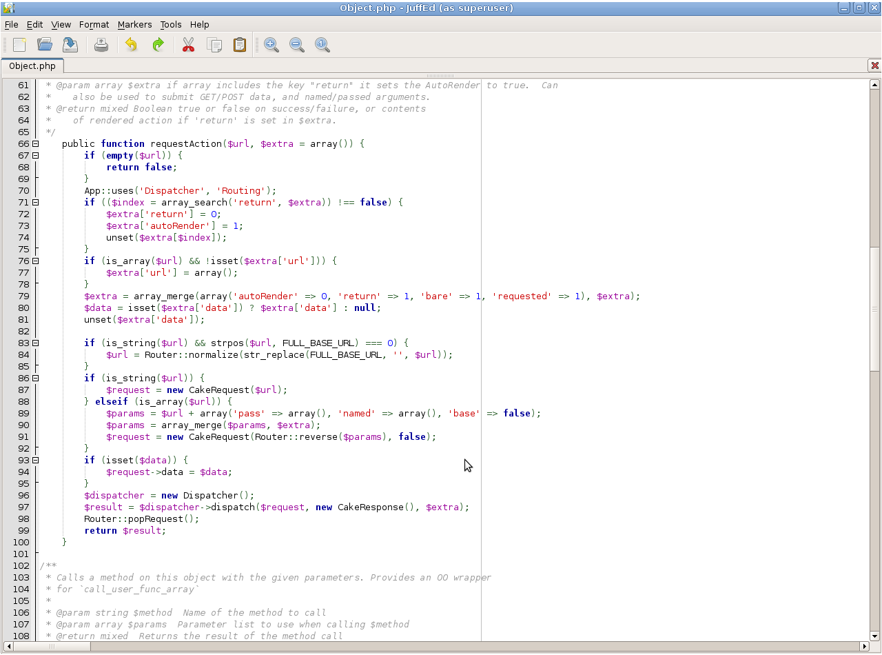 A screenshot for text editor JuffEd running on Debian box